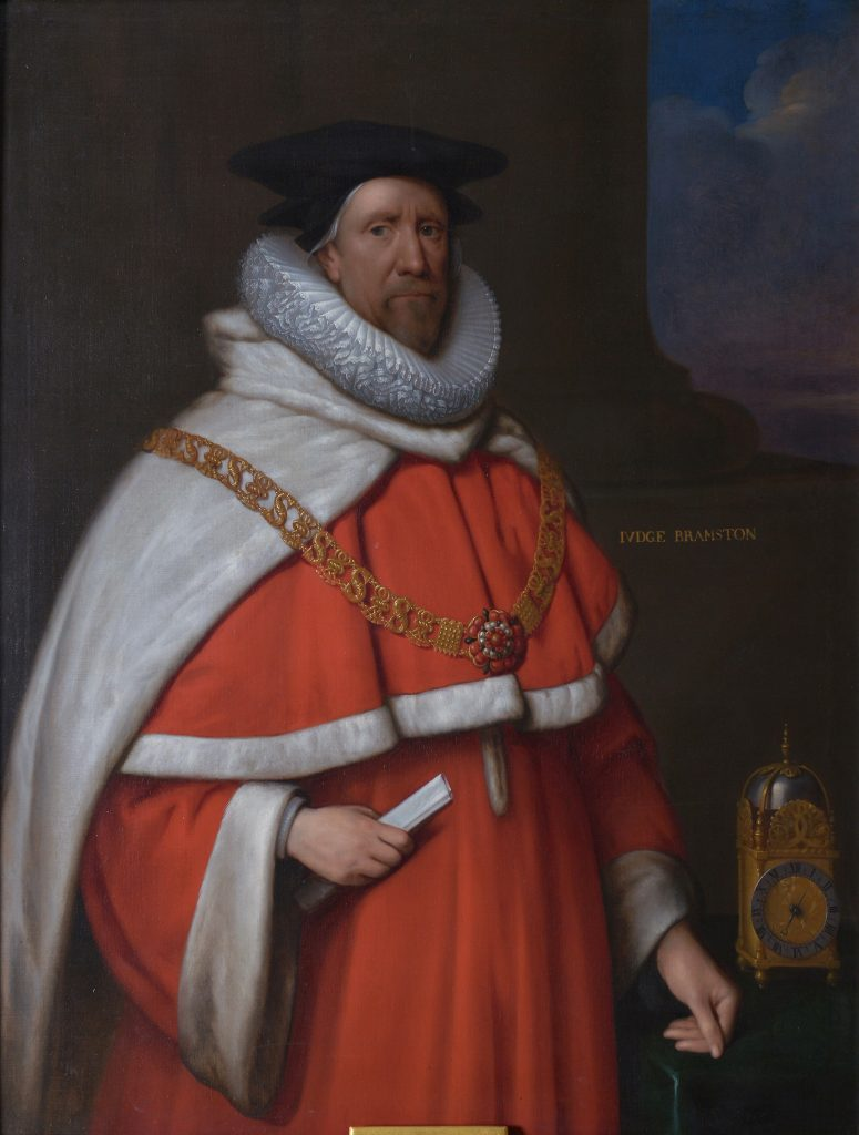 Sir John Bramston, Lord Chief Justice